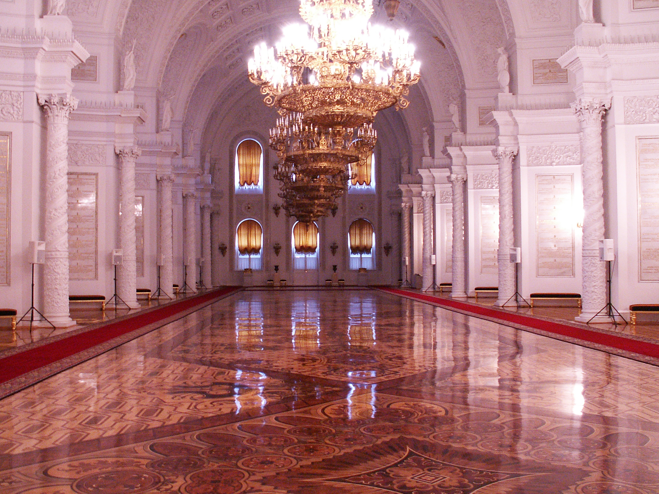 St George Hall in half light